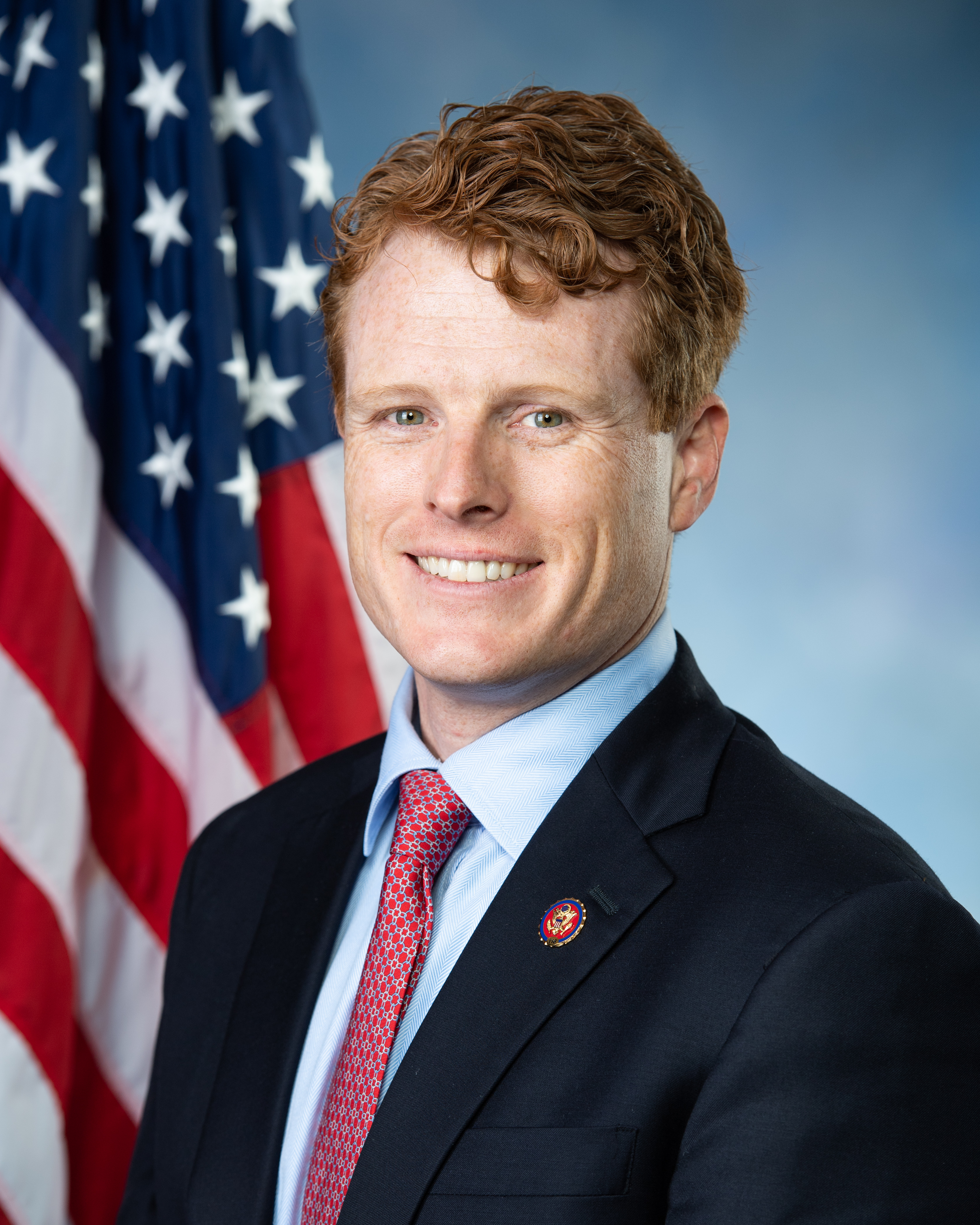 Official portrait of U.S. Rep Joseph Kennedy III, 2019